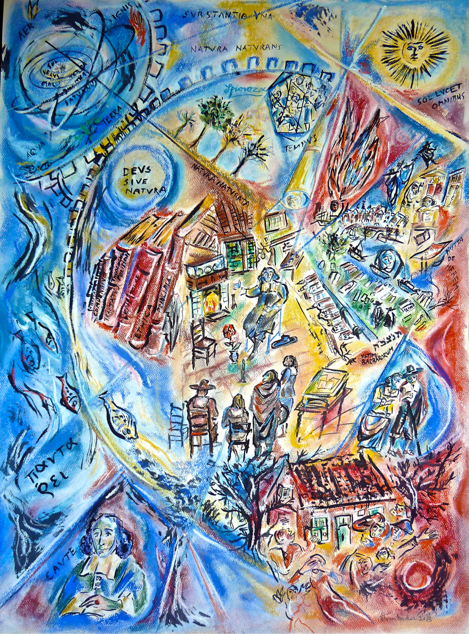 This pastel drawing (18 X 24 Inches) is a visualisation of Spinoza's Deus sive Natura